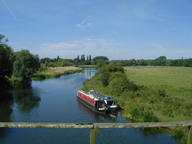 Nene Valley. Canal taken from a train window.